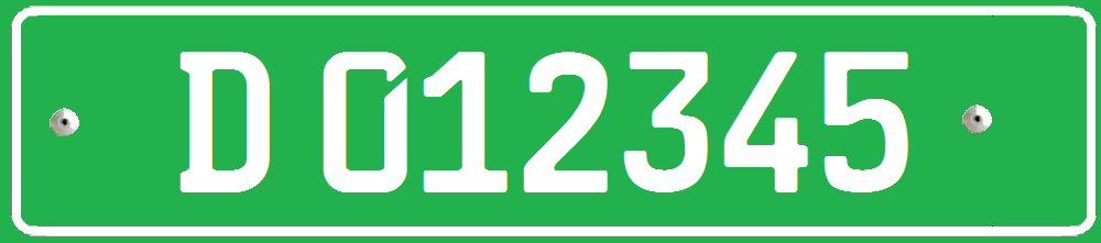 Corps consulaire license plate- UZ